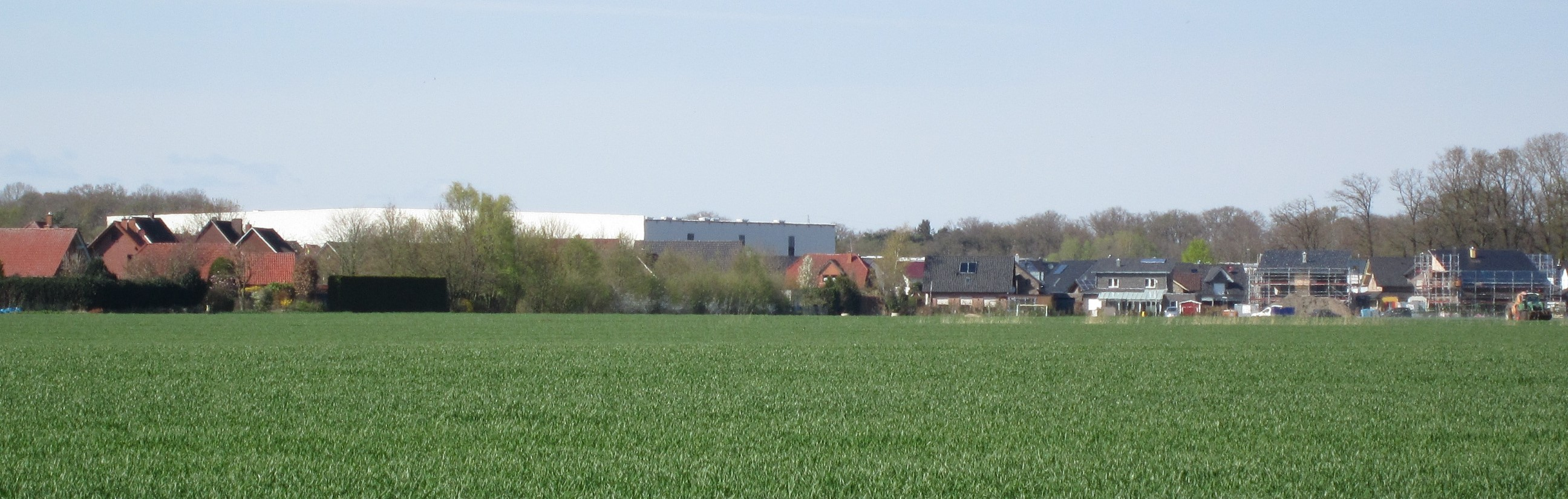 Brockdorf viewed in northern direction; in the background Pöppelmann plant II